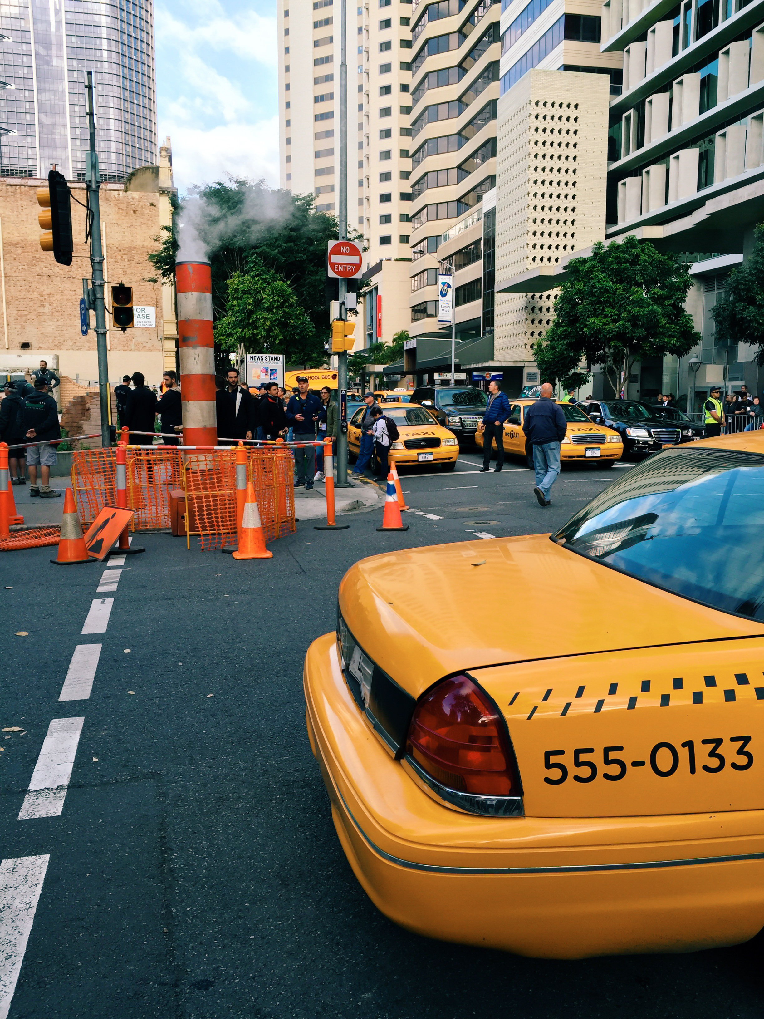 Parts of Brisbane's CBD being used as a film set for Thor: Ragnarok, starring Chris Hemsworth and Tom Hiddleston.